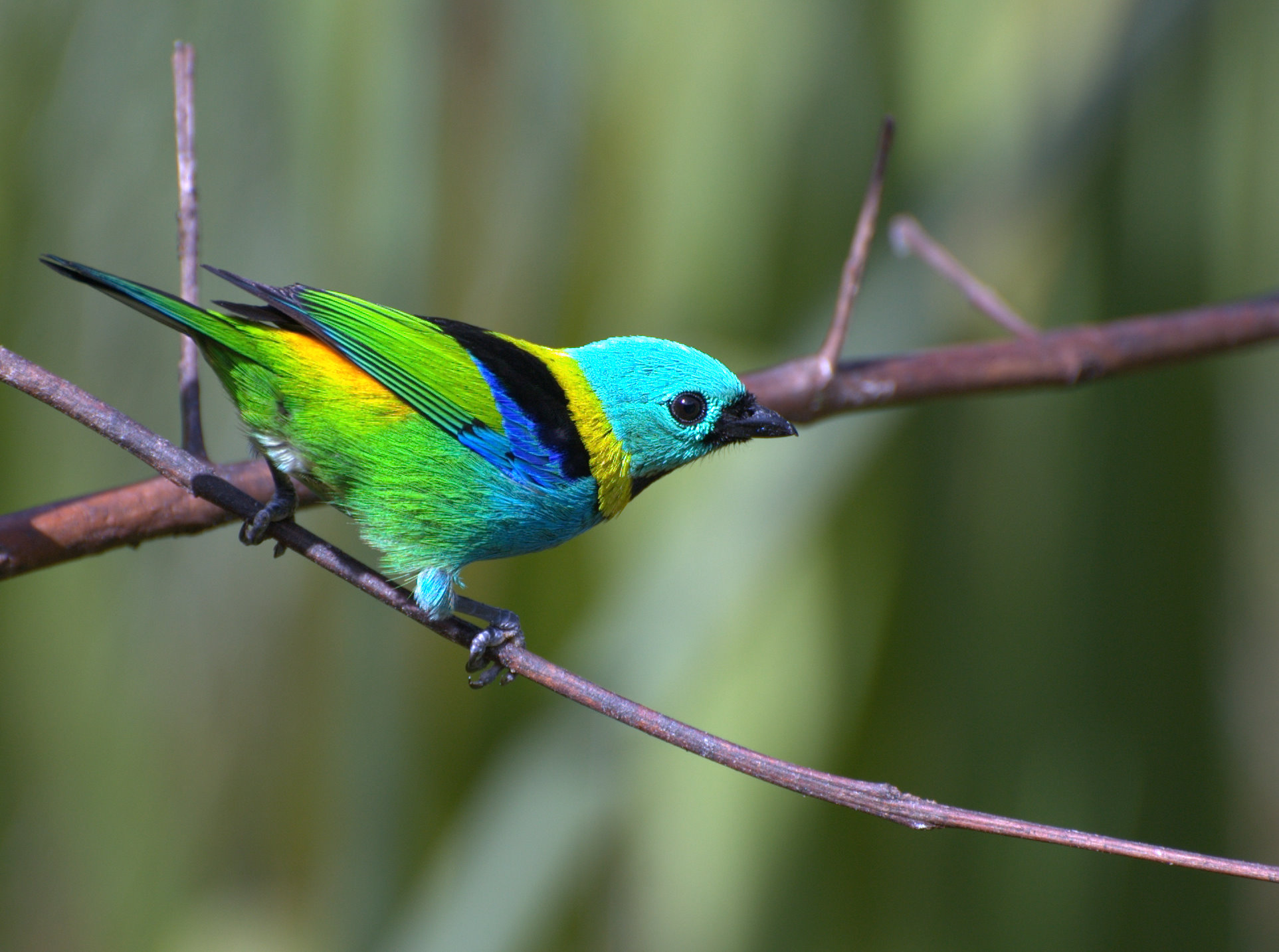 A Green-headed Tanager (Tangara seledon)